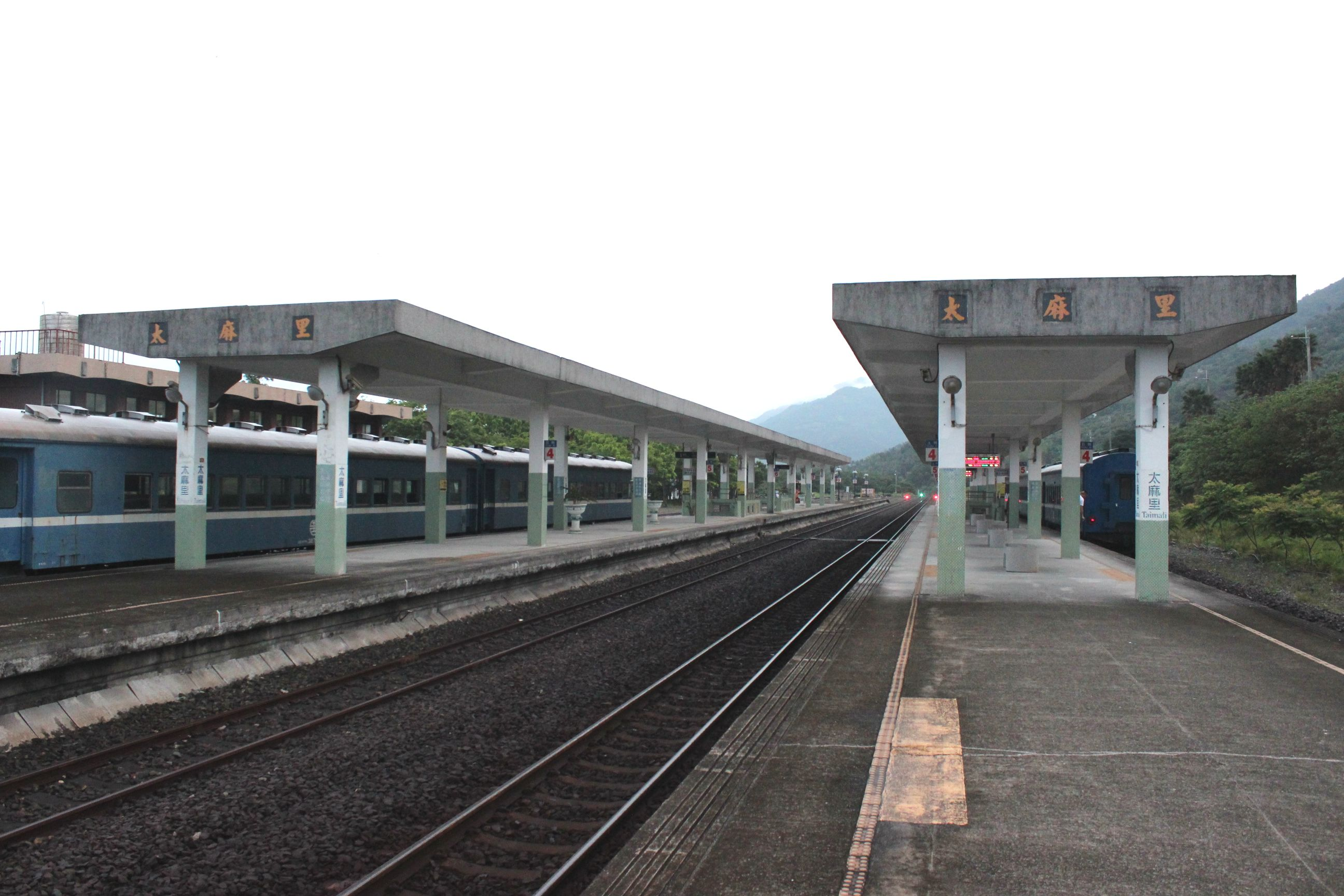 Taiwan Railway Administration 太麻里車站月台